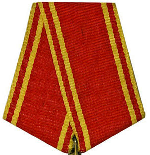 Order of Lenin type 5 ribbon